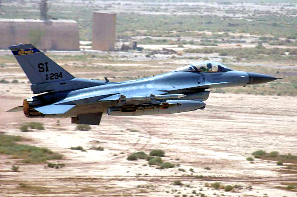 USAF F-16C block 30 #87-0294 assigned to the 332nd Expeditionary Fighter Squadron at Balad AFB takes off on an Operation Iraqi Freedom mission on July 21st, 2006. The F-16 jet is deployed from the 170th FS at Springfield ANG and provides close-air support and "eyes in the skies" intelligence, surveillance and reconnaissance for ground forces during combat operations.